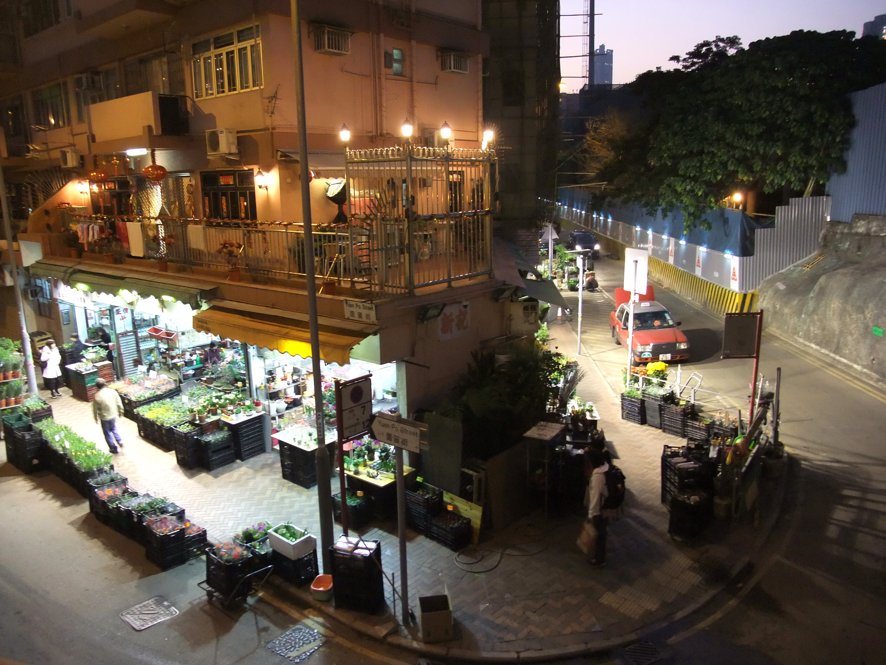 Flower Market Road and Yuen Po Street in Mong Kok, Hong Kong.